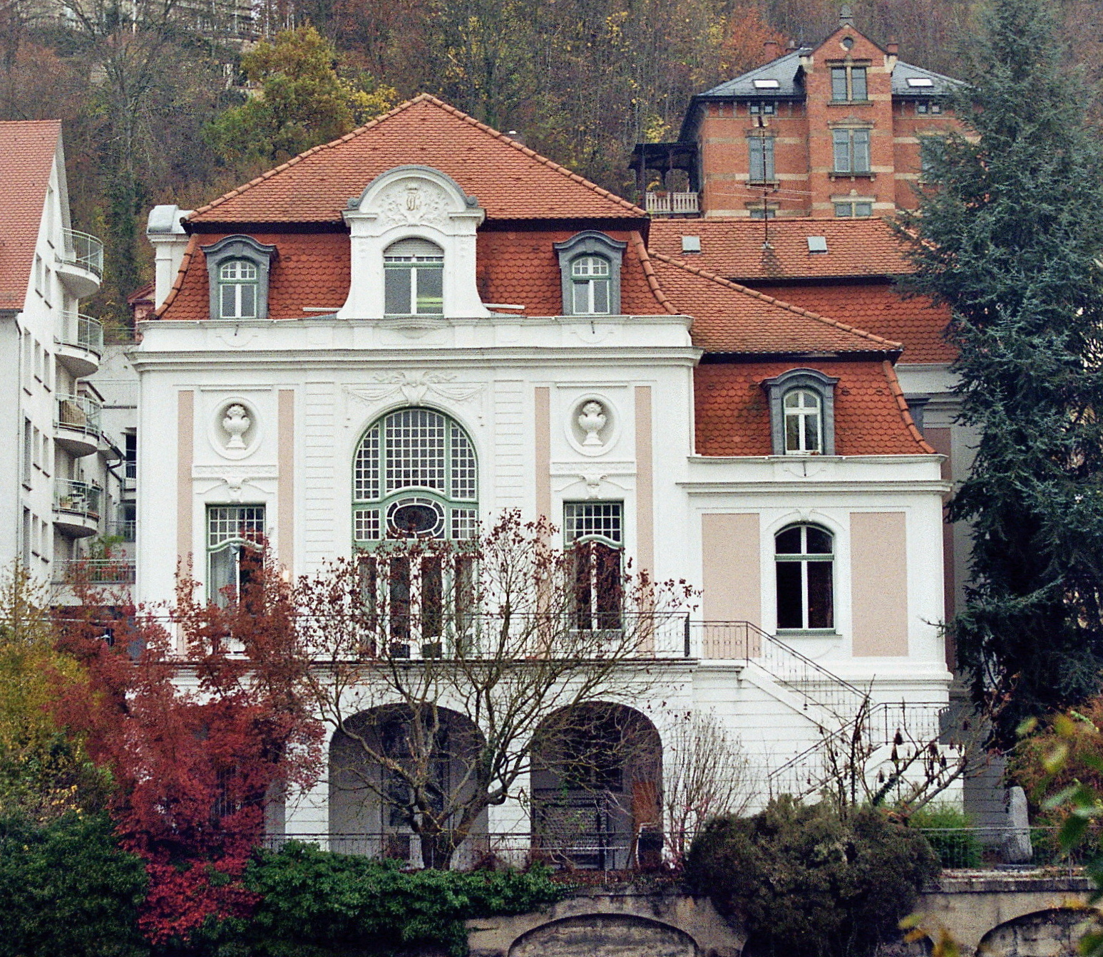 Former house of student fraternity Corps Suevia Tübingen, view from the other side of the Neckar river